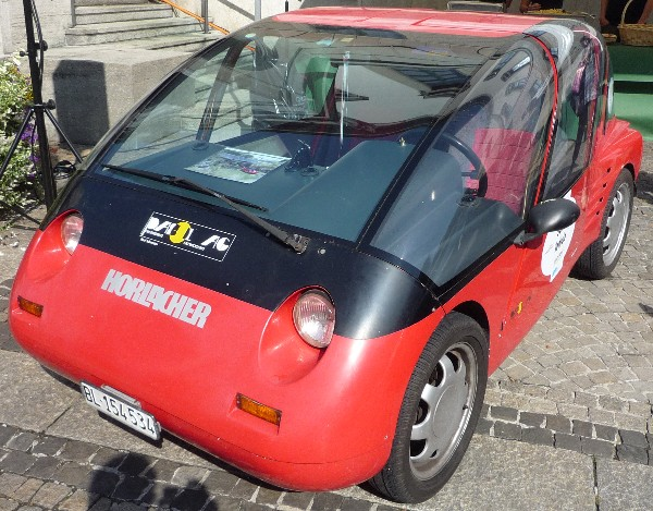 Horlacher Sport held a world record for driving 547 km without charging its battery in 1992. It is still in use in Switzerland.